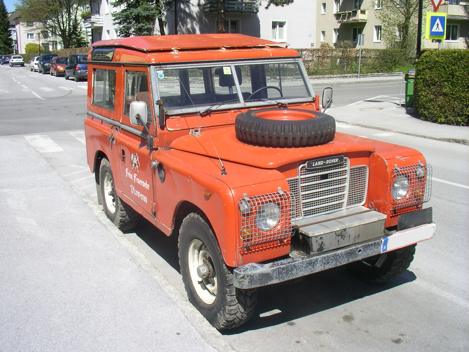 Land Rover Series III Front